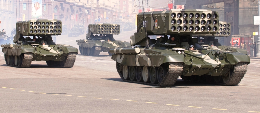 A Russian TOS-1 30-barrel multiple rocket launcher based on a T-72 tank chassis.